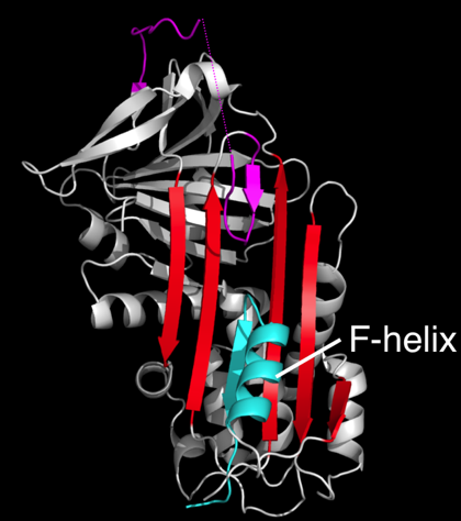 Structure of delta antichymotrypsin, adapted from a file created by JCWHIZZ.